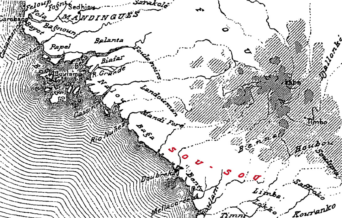 Location map of Susu people : "Peuples des rivières du Sud" in Élisée Reclus, Nouvelle géographie universelle : la terre et les hommes, p. 340 )